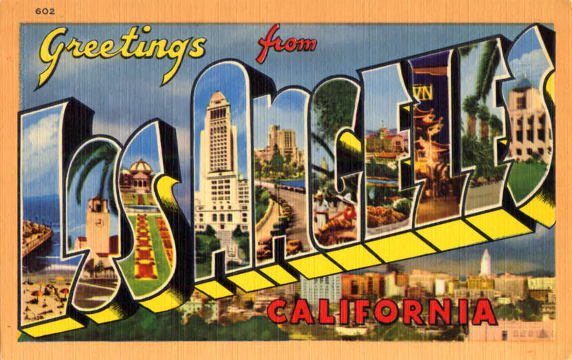 Large-letter postcard with various views of Los Angeles shown within each letter.